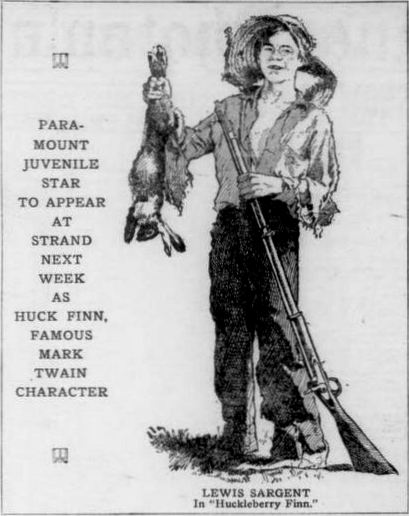 Newspaper advertisement for the American film Huckleberry Finn (1920) with Lewis Sargent, on page 9 of the January 8, 1921 Duluth Herald.